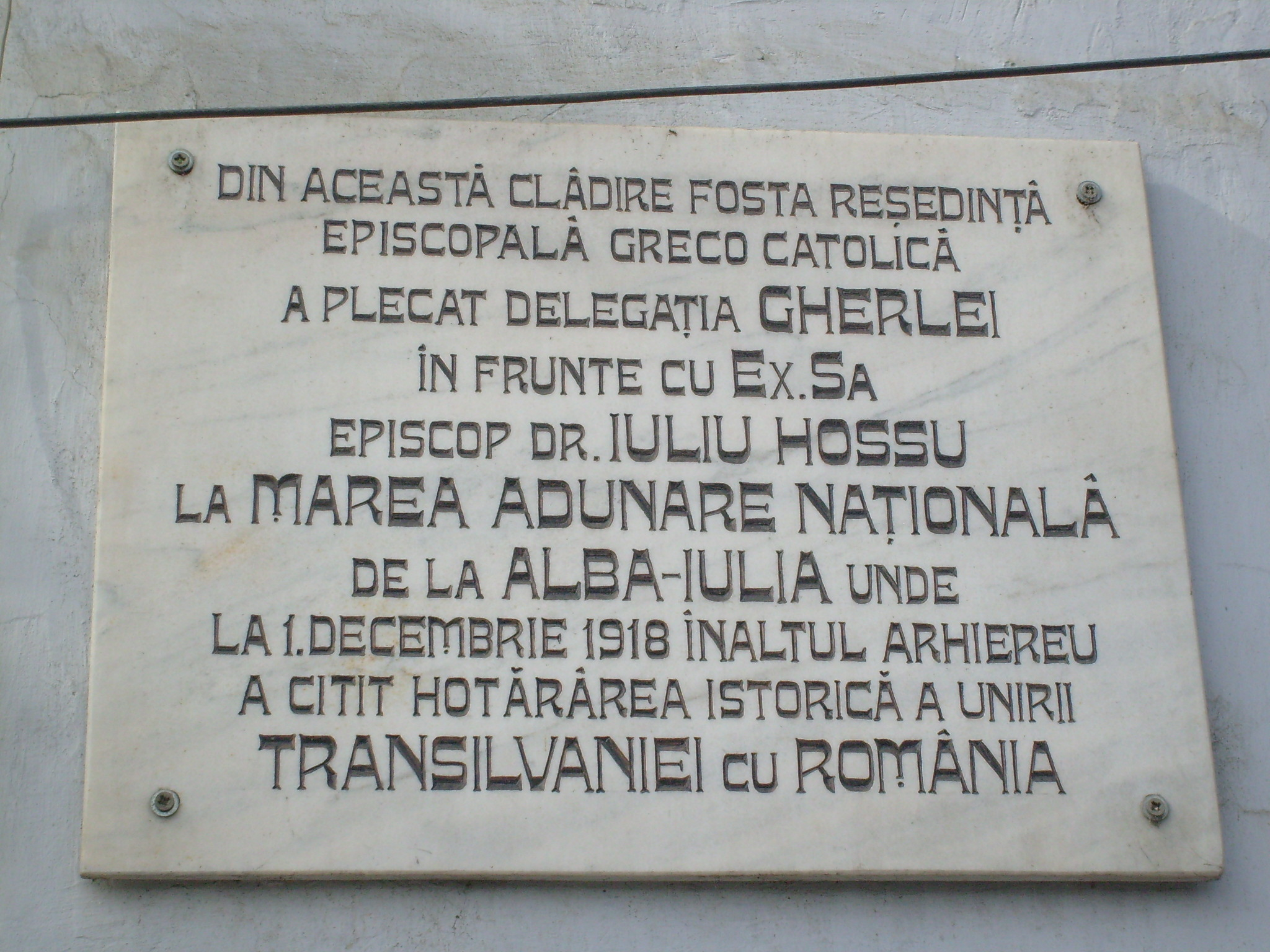 Gherla. First seat of the Cluj-Gherla Bishopric. Memorial board.